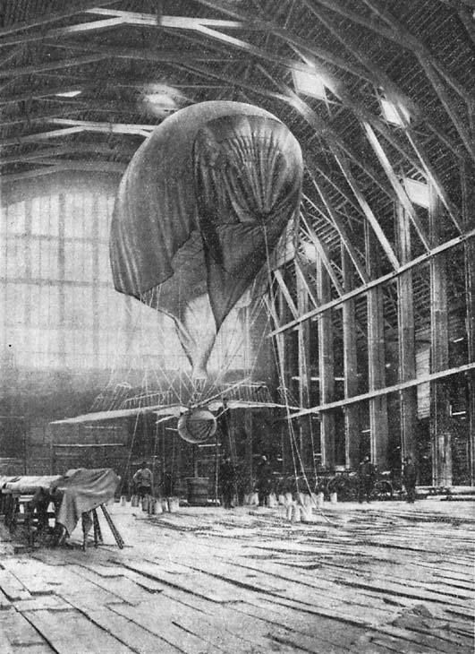 I.A. Matyunin's flight device "Miskt" at Okhta shipyard, St. Petersburg in 1891.